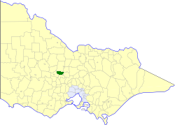 Location of the Shire of Maldon within Victoria.